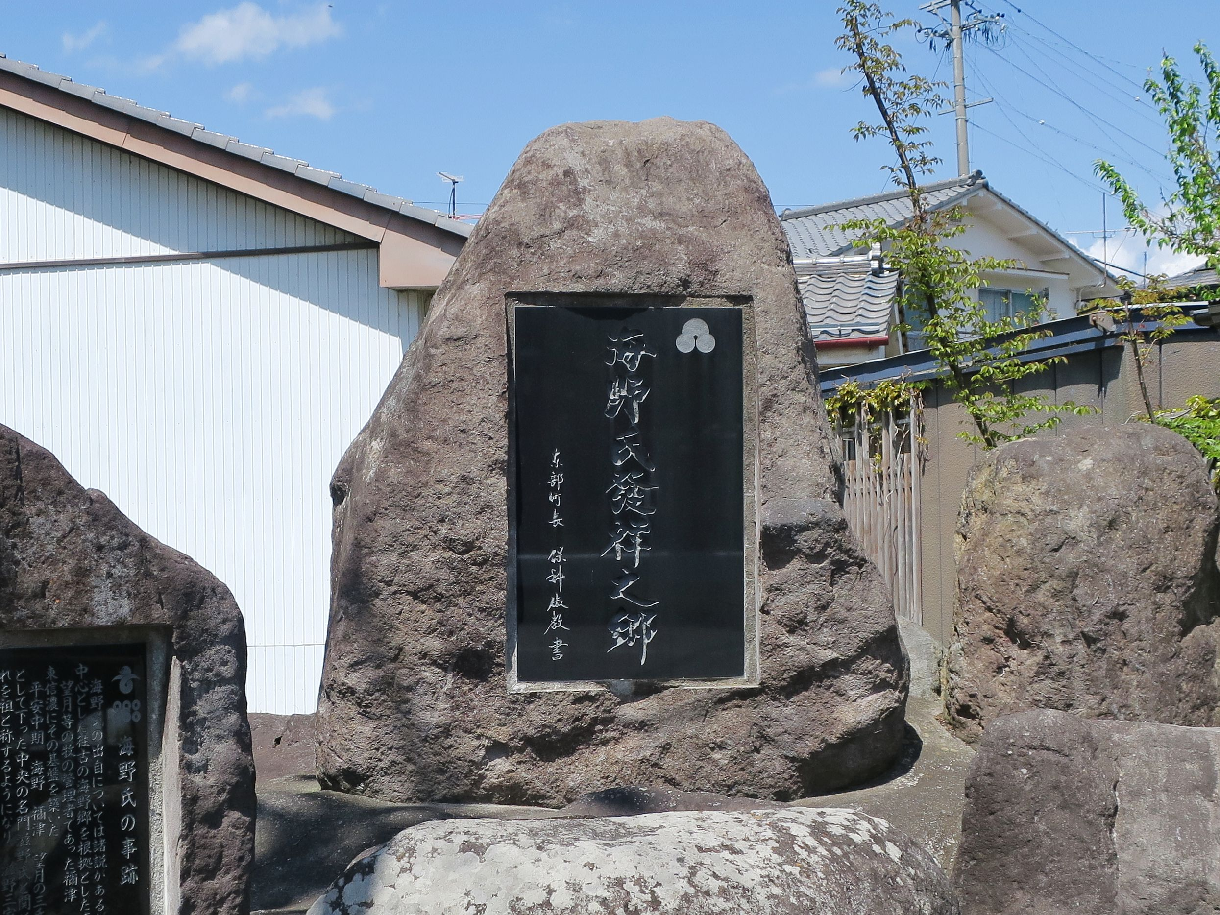 Unno-juku (Tōmi, Nagano).